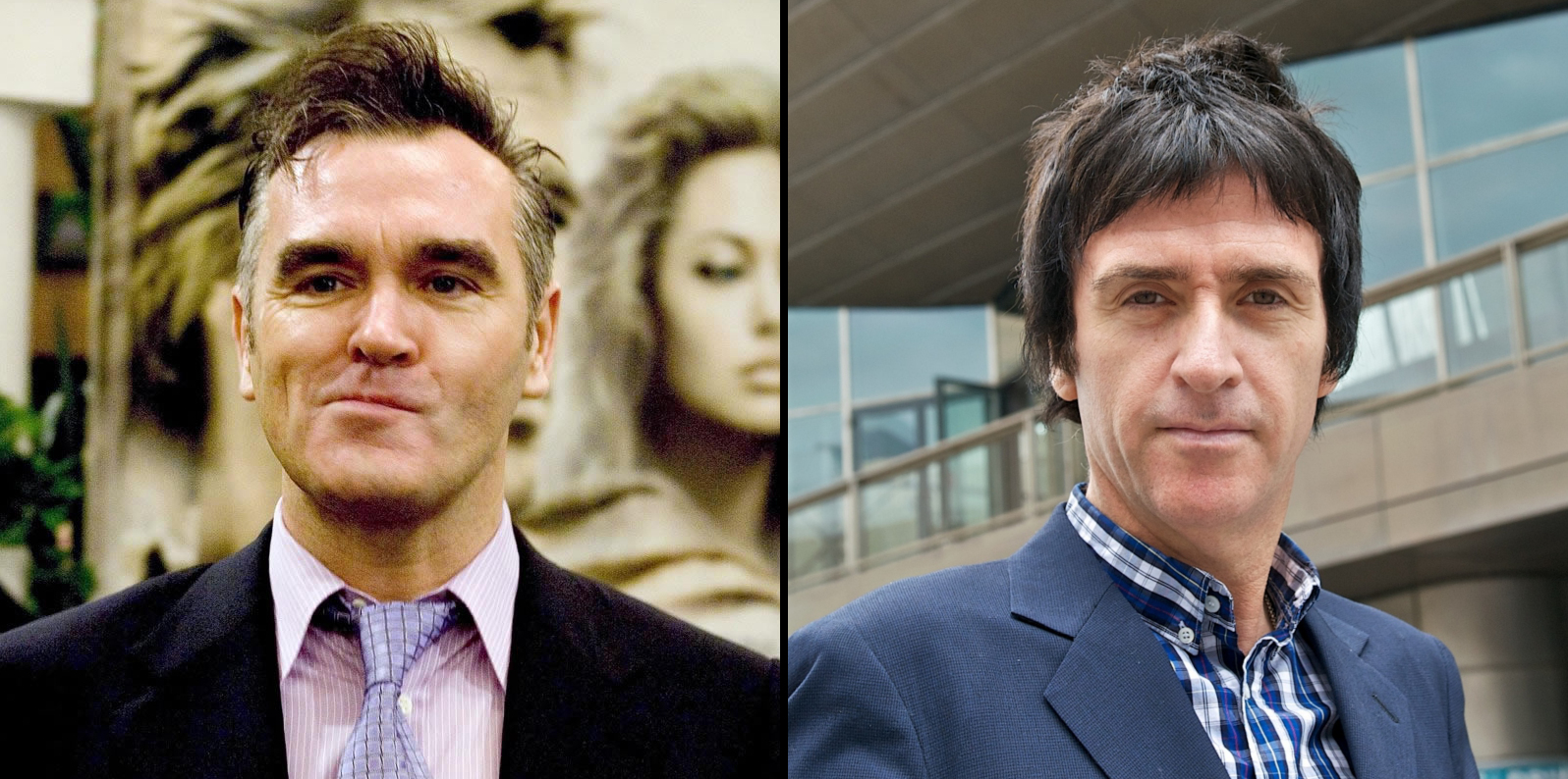 Left: Morrissey at the premiere of the Alexander film in Dublin Ireland. Right: Johnny Marr at the University of Salford in 2012